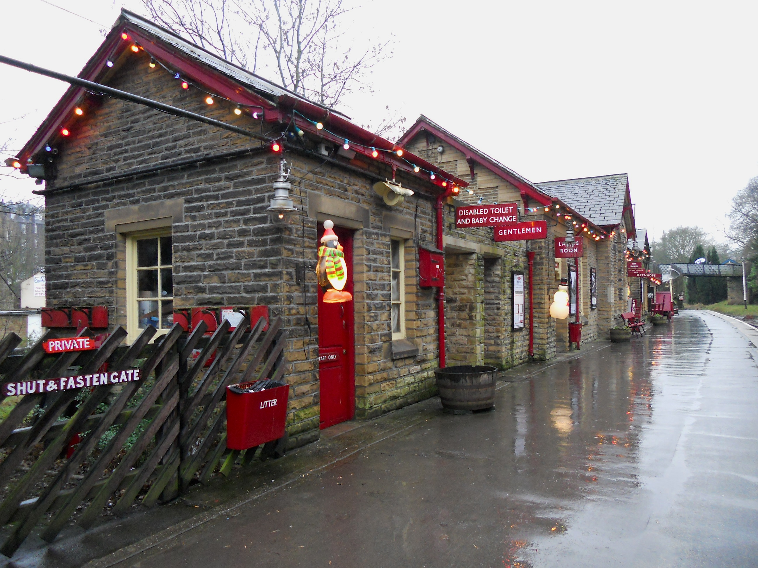 Haworth Station building on the Keighley and Worth Valley Railway